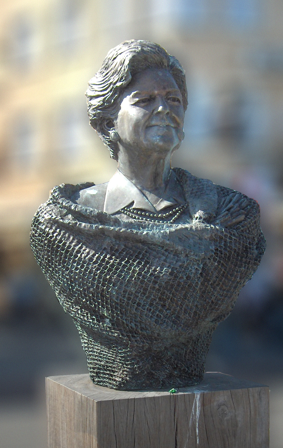 Bronze bust of Lucy Loes, an Ostend folk singer, by Josiane Vanhoutte (2005)